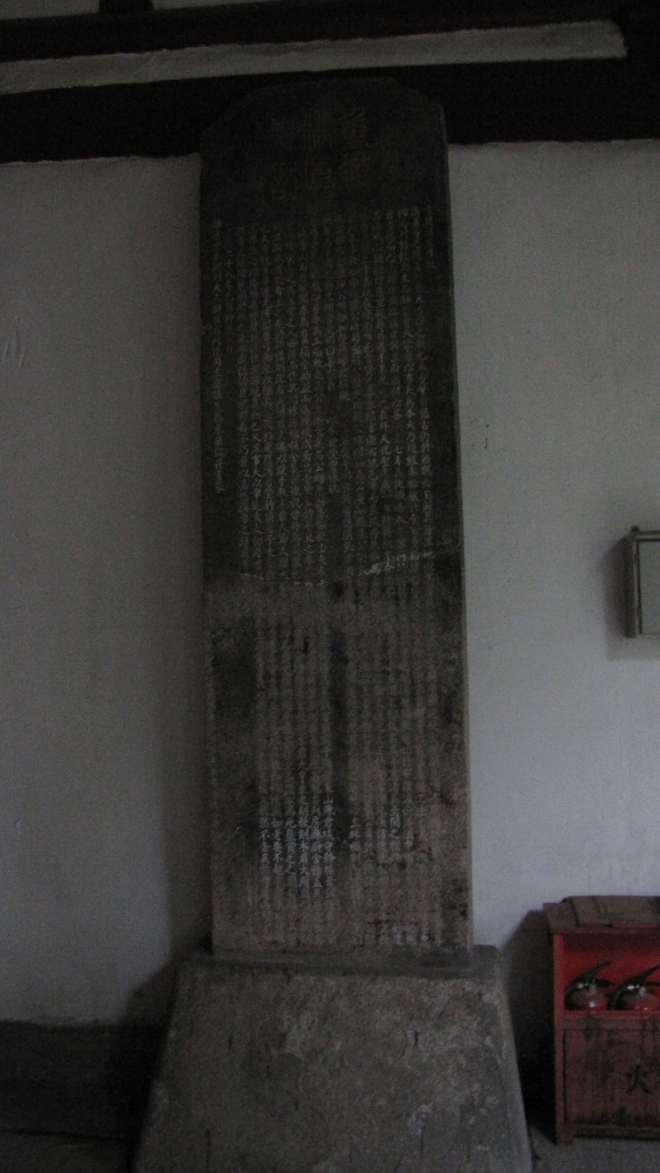 A Ming Dynasty stele in Foochow Mosque, describing the reconstruction of the mosque, Fuzhou, China